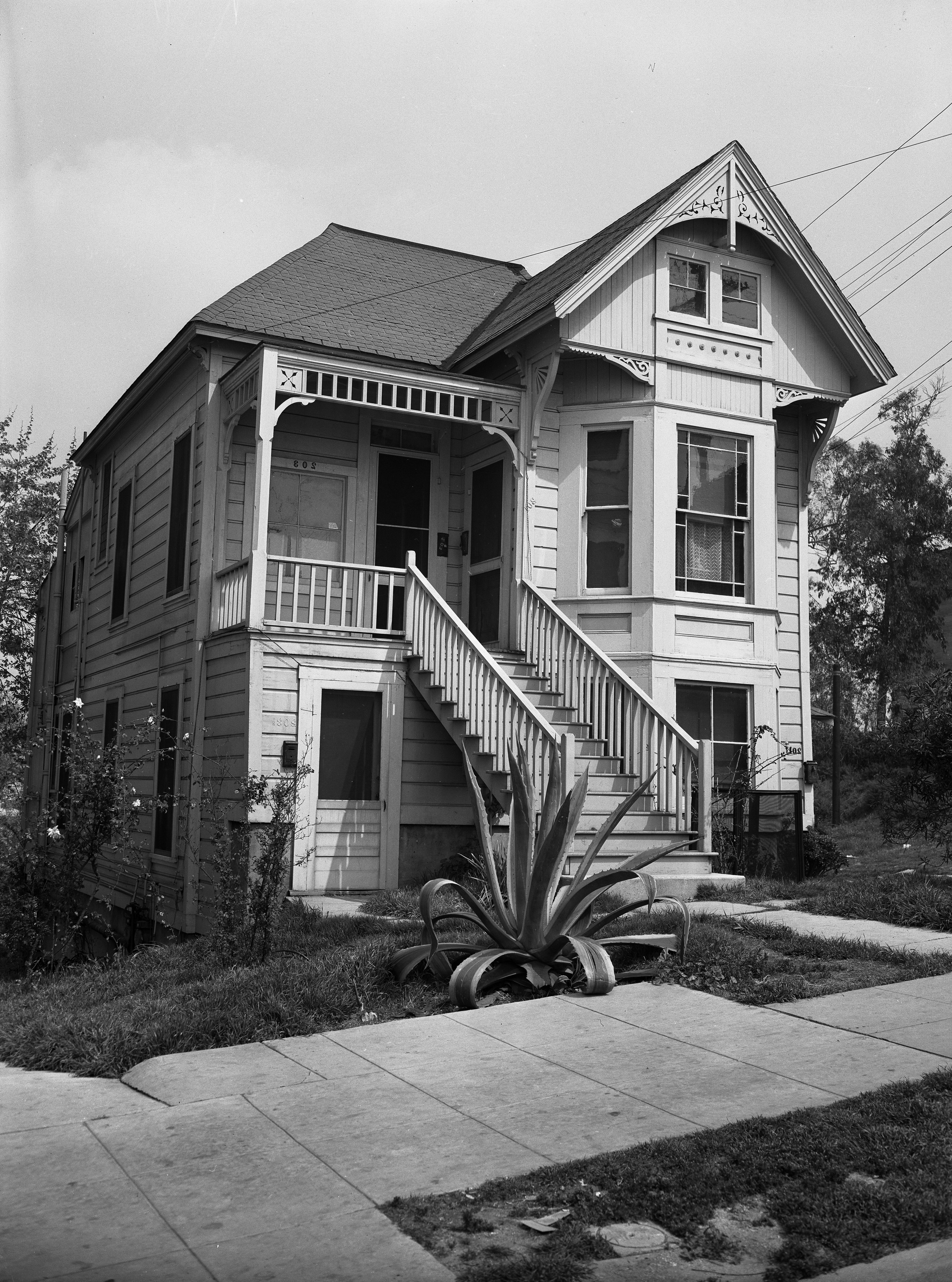 Title: House at 201 N. Flower St, turned into apartments Los Angeles, Calif., 1946 Published caption 'FOR RENT -- $20': Fifty years ago this house at 201 N. Flower St. was offered for rental at $20 a month. Today its four apartments are bringing in $70 monthly. Publication Los Angeles Times Publication date April 7, 1946 Topics Apartments--Bunker Hill, Los Angeles--Victorian houses